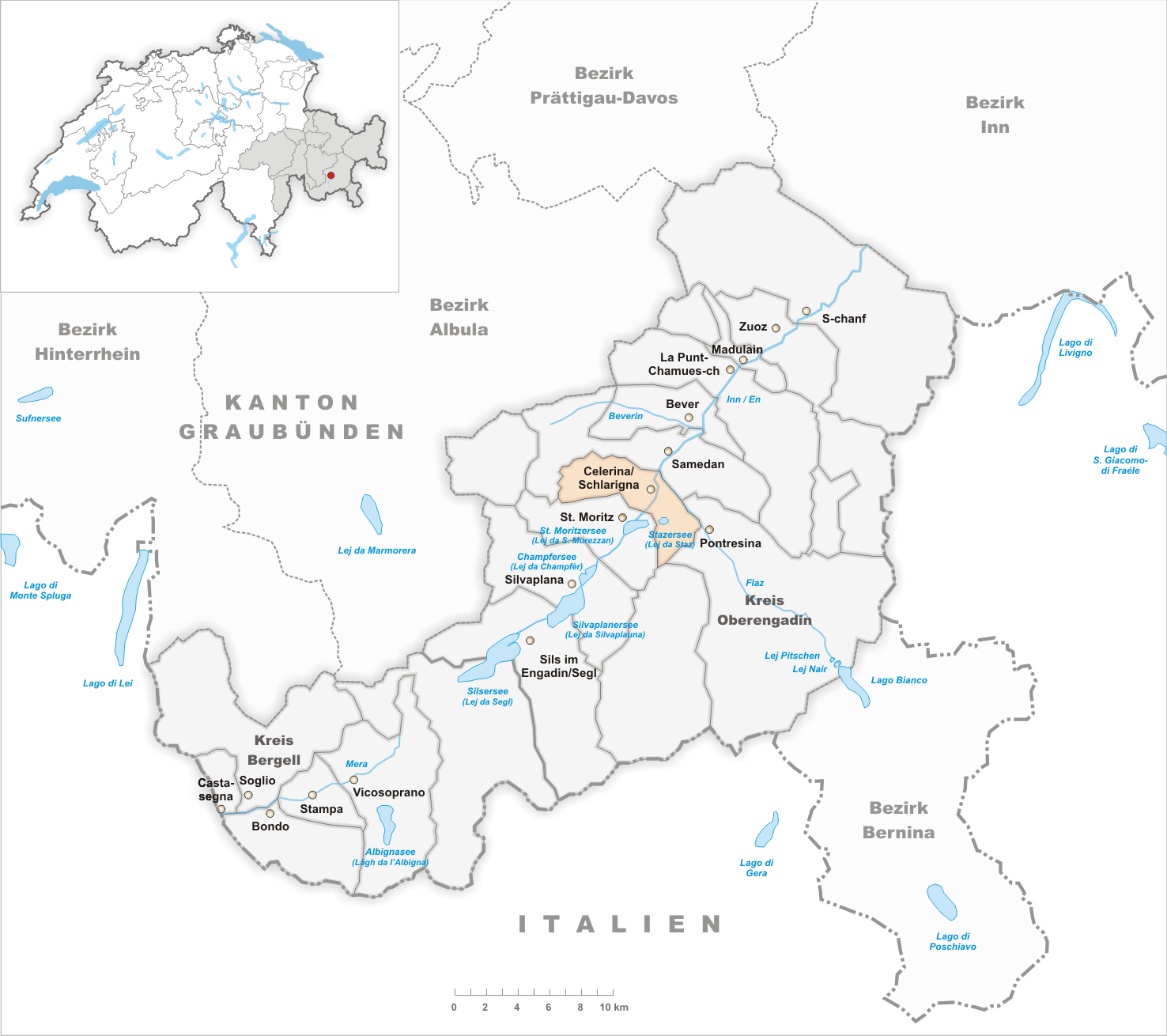 Municipality Celerina/Schlarigna